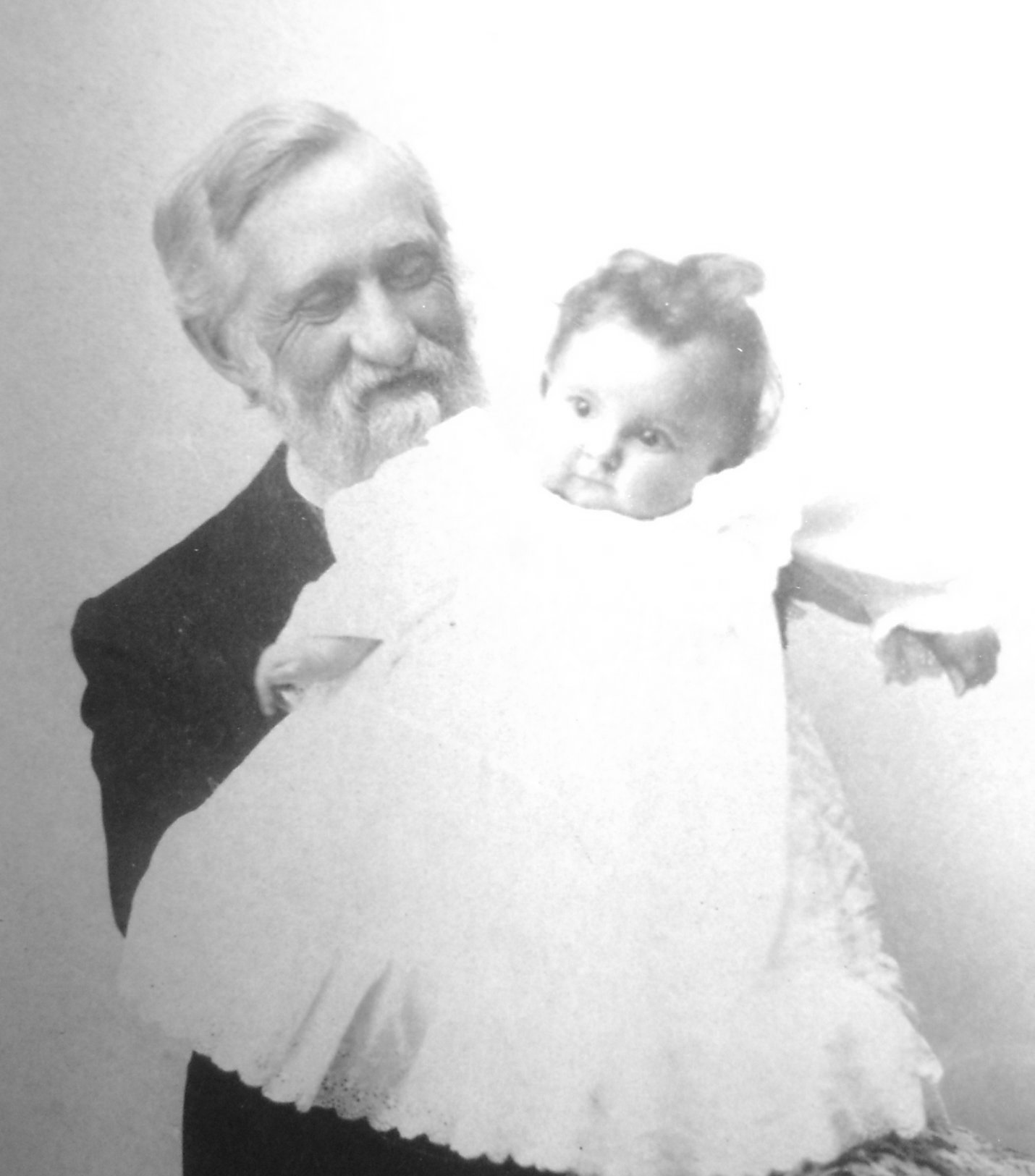 Thomas Jefferson Ramsdell with youngest daughter